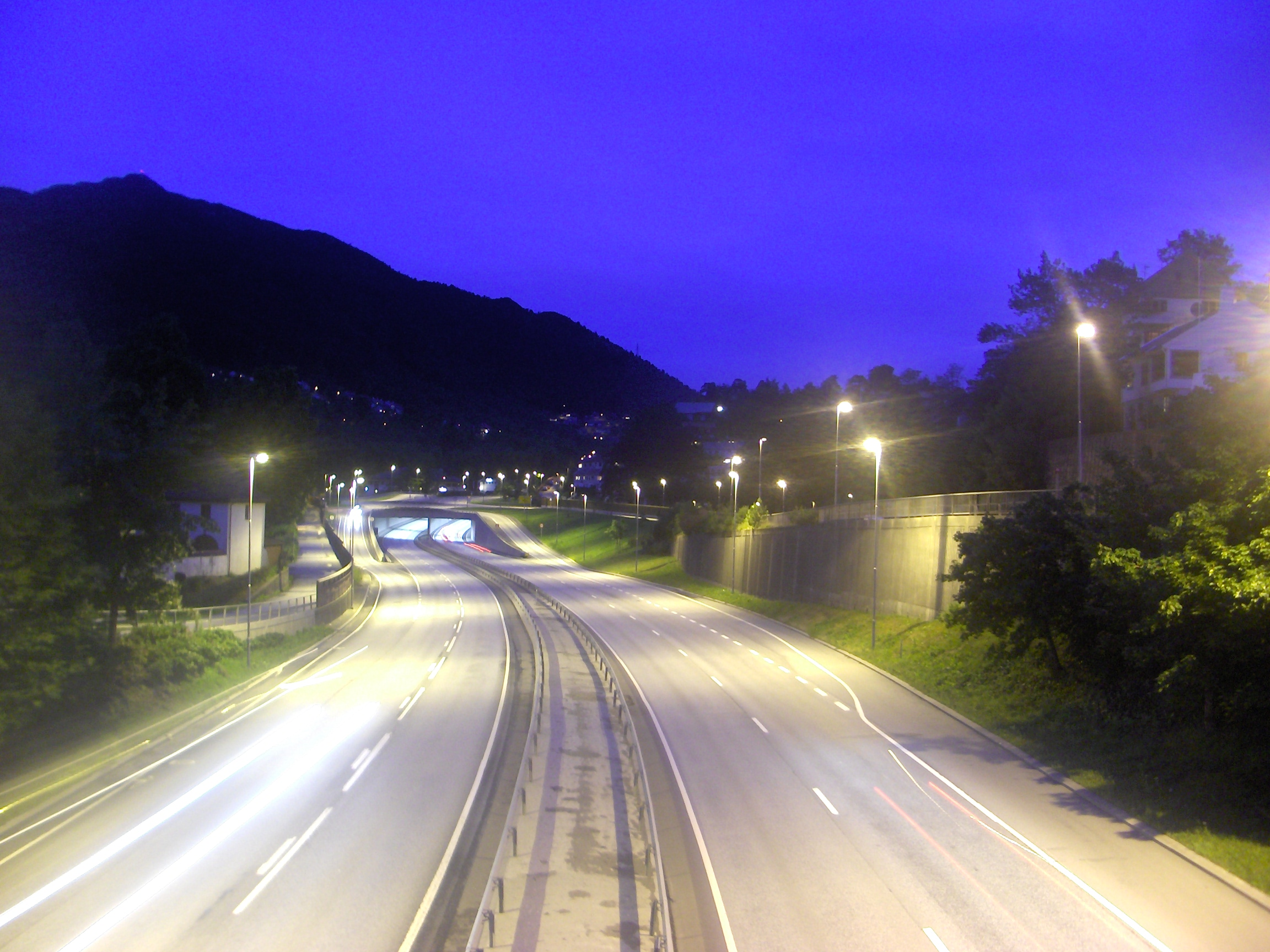 I photographed it..